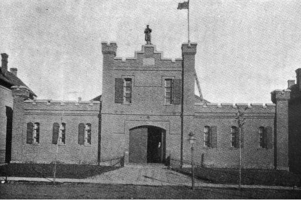 The armory of the Scranton City Guard in 1878, later headquarters of the National Guard's 109th Infantry Regiment and home to units of the 55th Brigade.